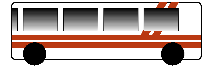 Decoration on Reims [France] bus before 1989